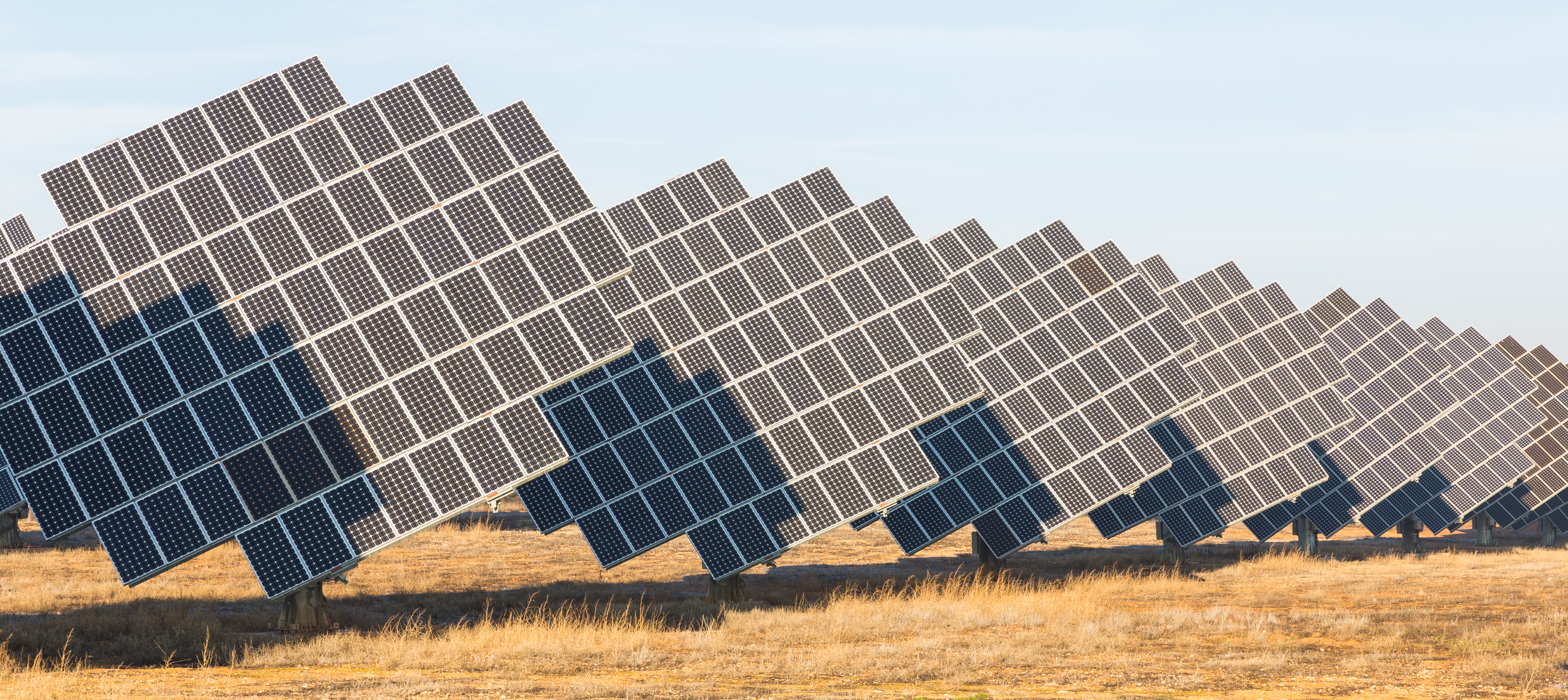 Photovoltaic power station in Cariñena, Zaragoza, Spain